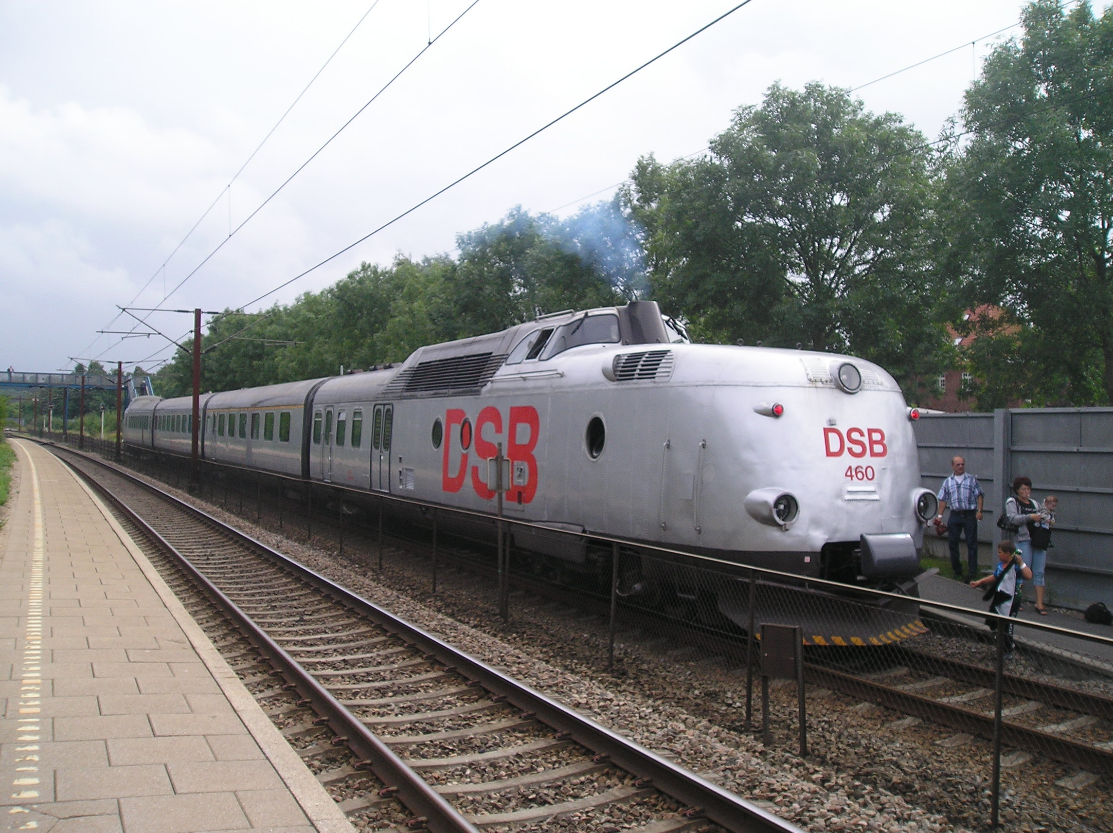 Danish multiple unit DSB Litra MA on Tommerup Station.